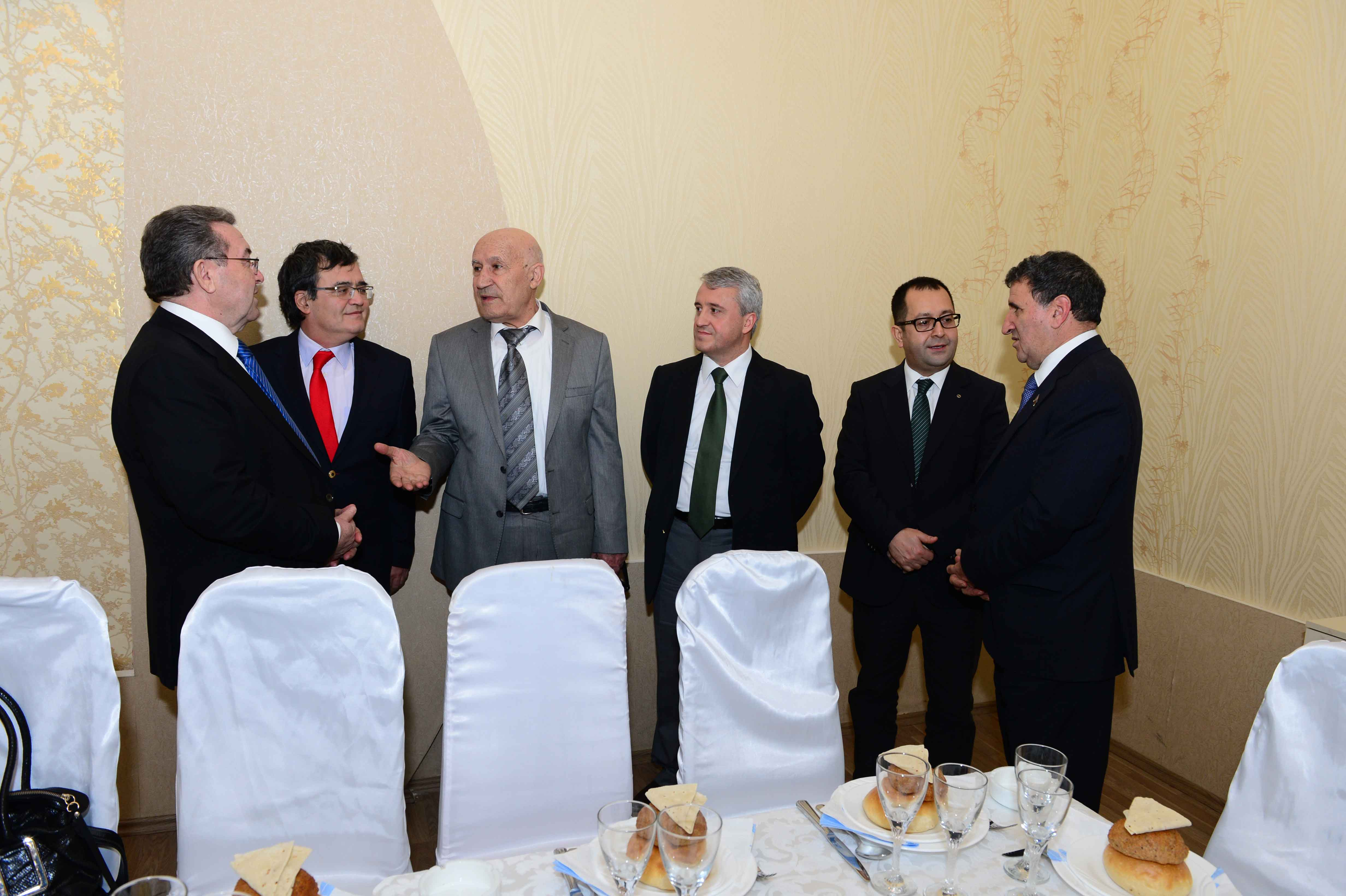 tədbir 4